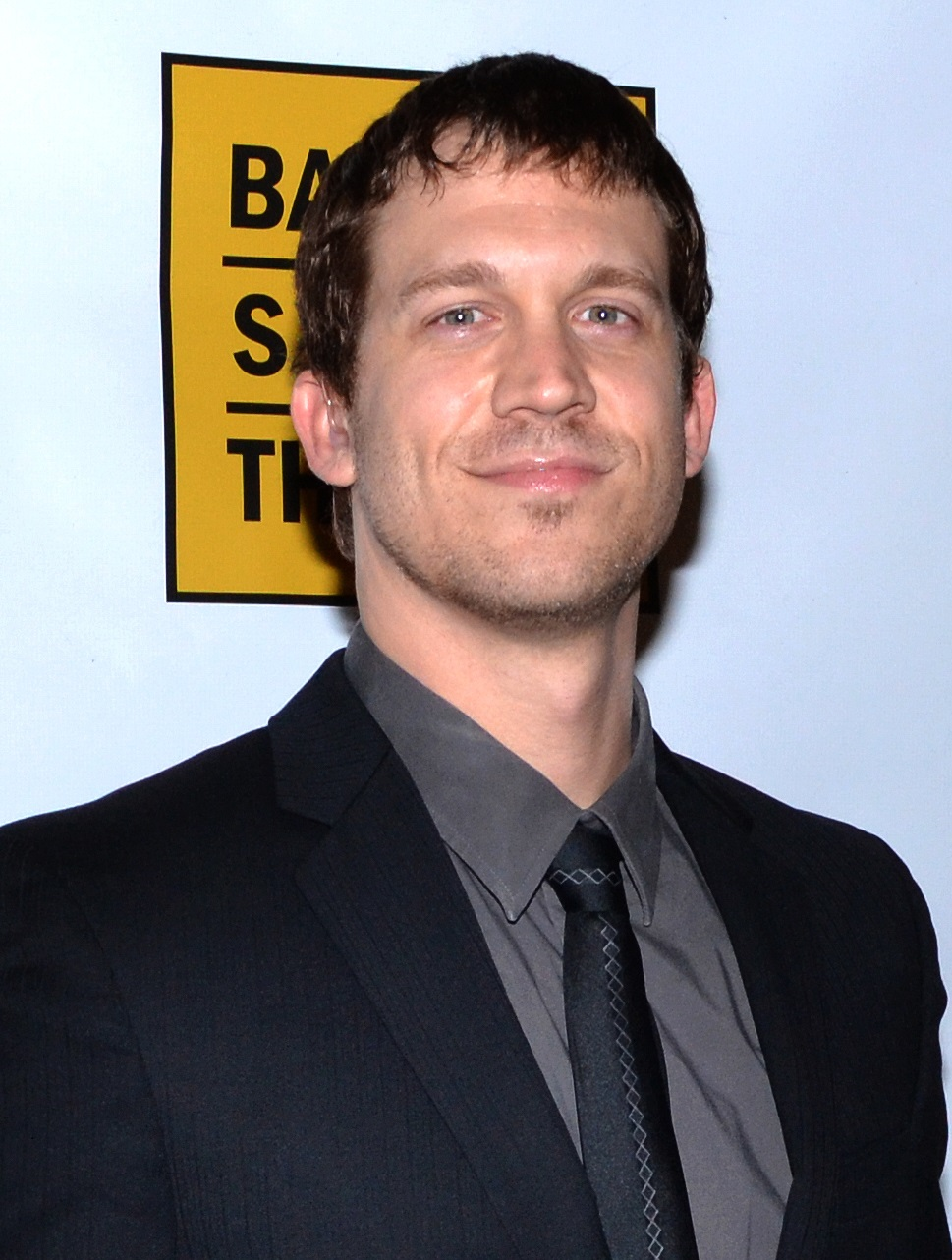 Opening night press appearance of actor Russell Harvard for the Barrow Street Theater NY premiere of the play "Tribes." March 4, 2012. Photograph by David Gordon/TheaterMania.com.